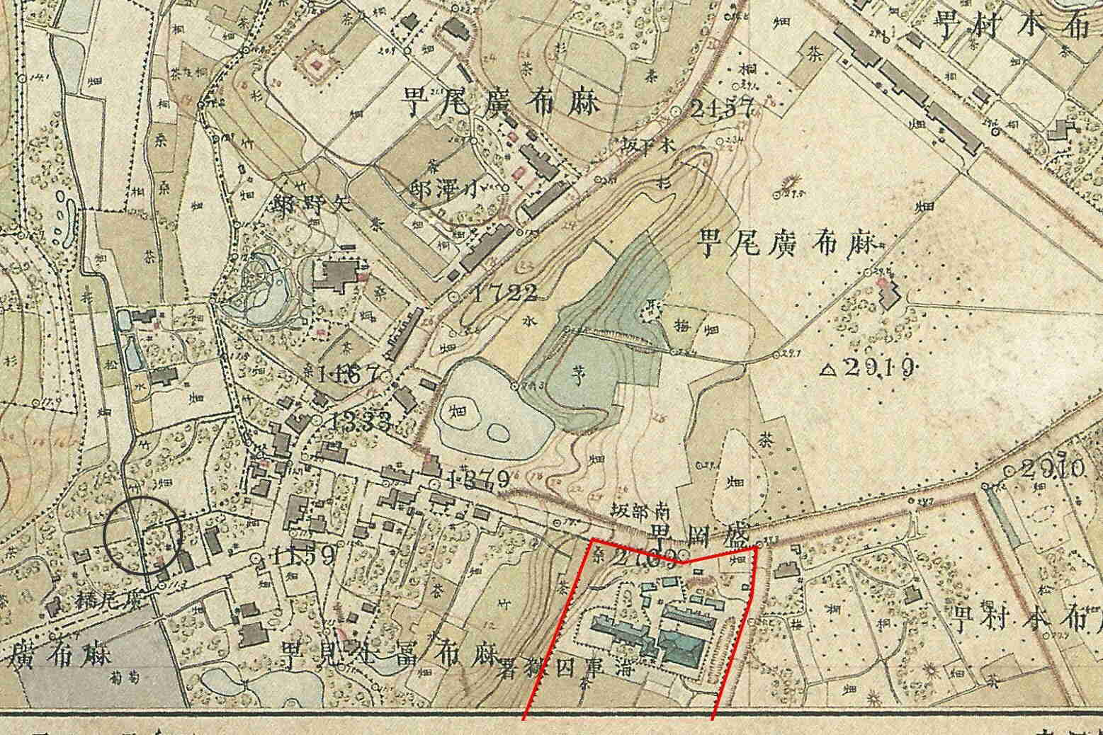 detail of old map